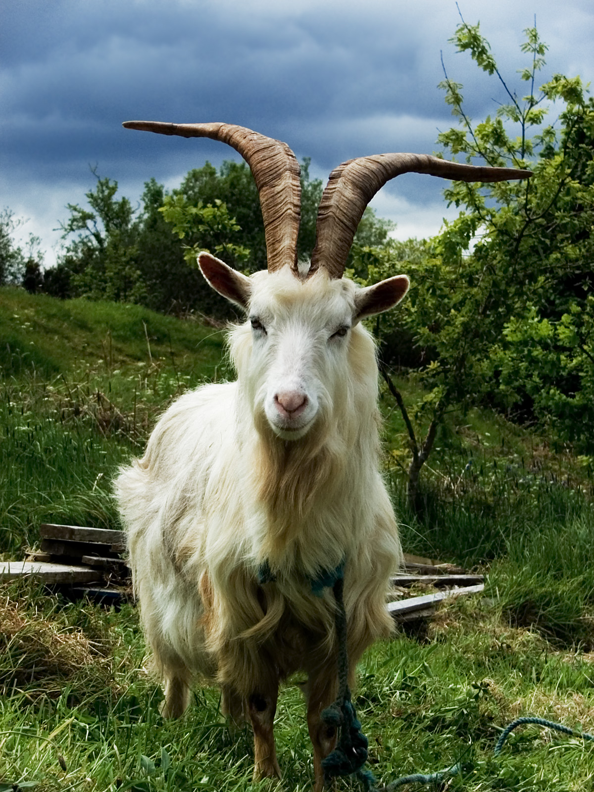 Irish Goat